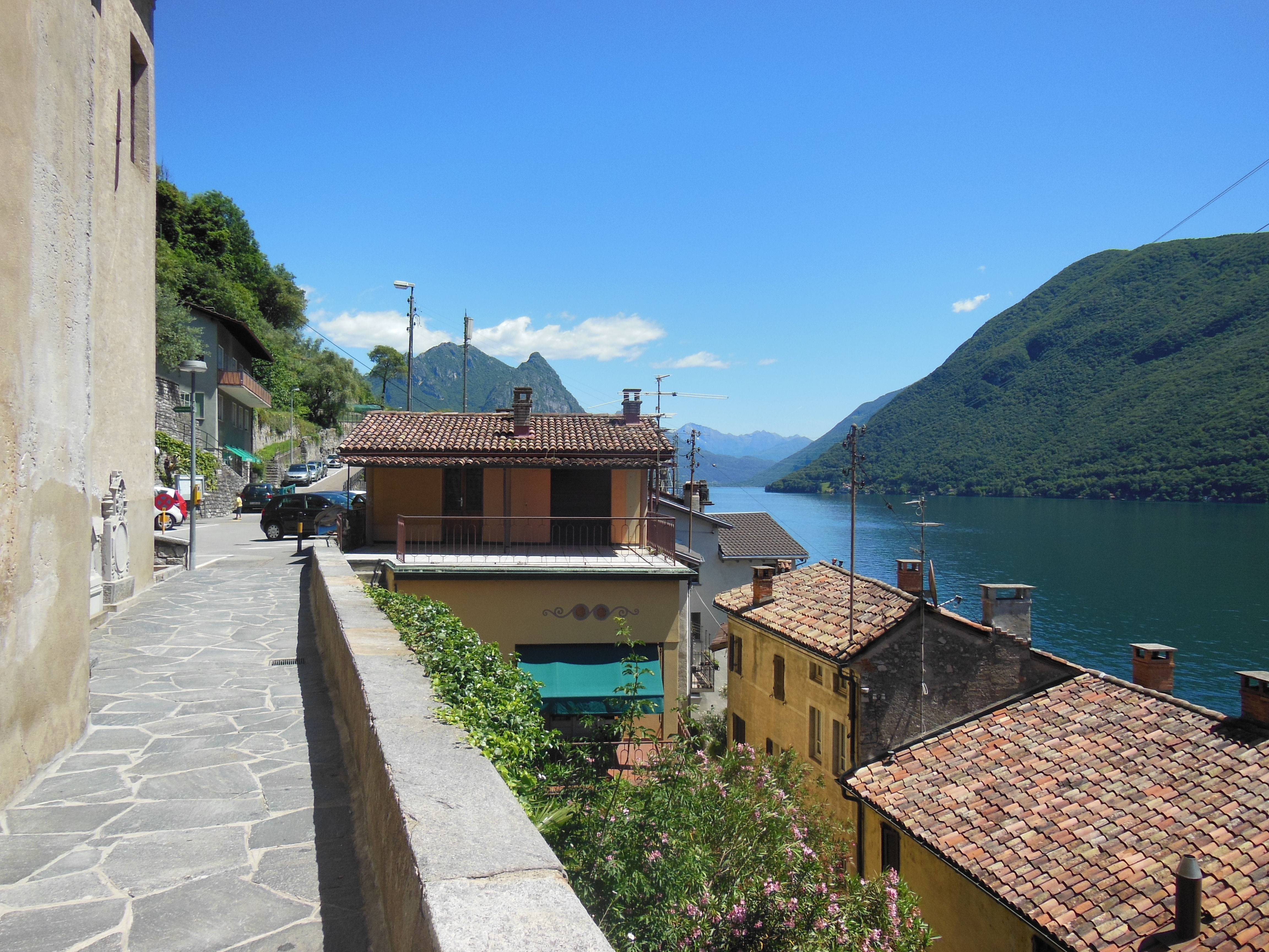 A street scene at a high level in the village of Gandria, on Lake Lugano in Switzerland. This is as close to the water as road vehicles can reach. For more information, see the Wikipedia article Gandria.